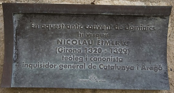 Girona Especial de fires de Sant Narcis. Placa de Nicolau Eimeric